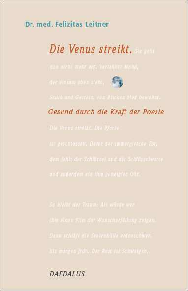 Buch Cover Die Venus Streikt. Gesund durch die Kraft der Poesie.